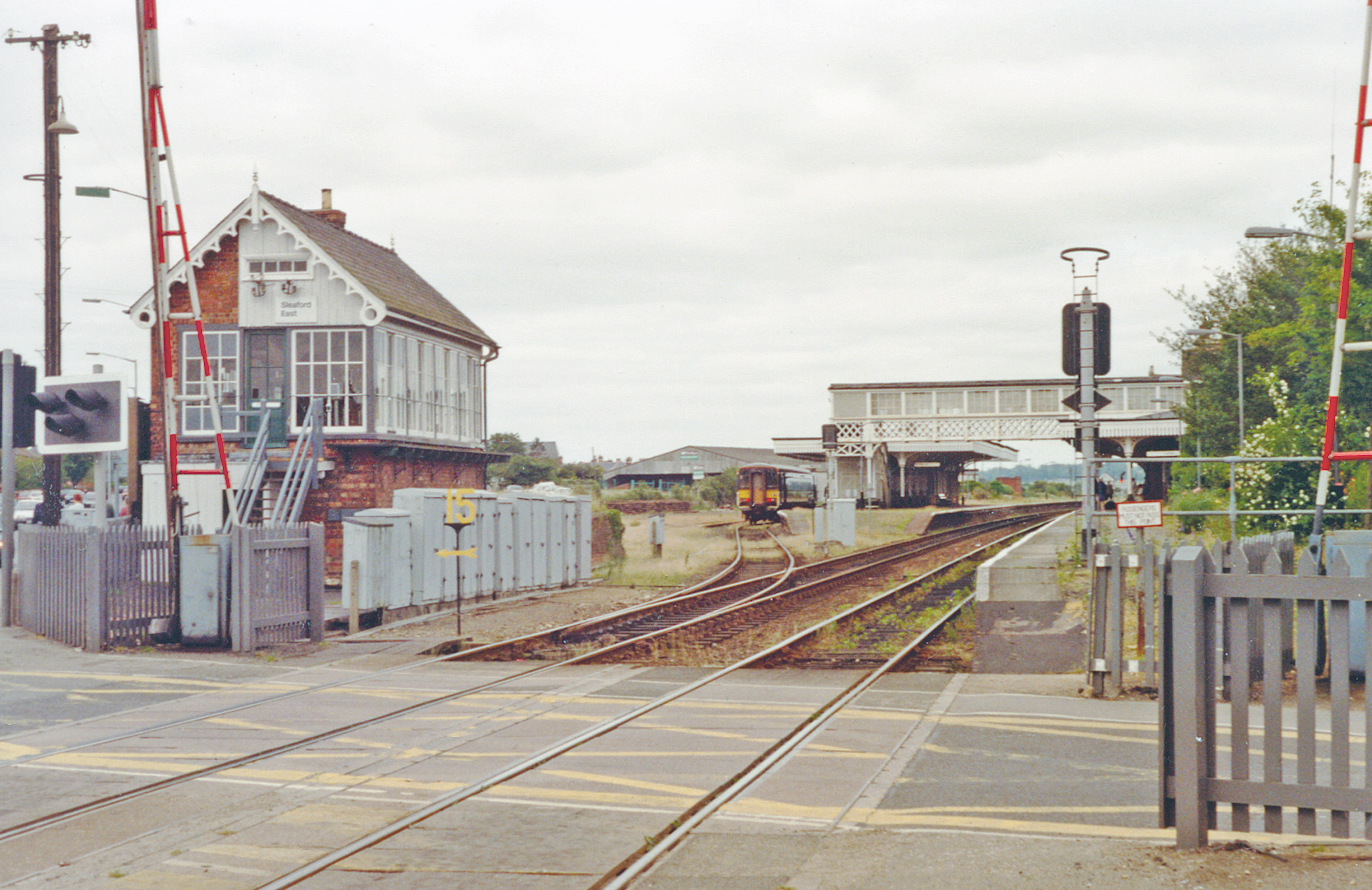 Sleaford Station, 1992. View west from the Southgate level-crossing controlled by Sleaford East Box: ex-GNR Grantham - Sleaford - Boston and ex-GN&GE Joint line (March - Spalding - Sleaford - Lincoln - Gainsborough - Doncaster) main line, which latter also by-passes Sleaford station by a cut-off about a mile to the east. Until 22/9/30, there was also a GNR branch south to Bourne.